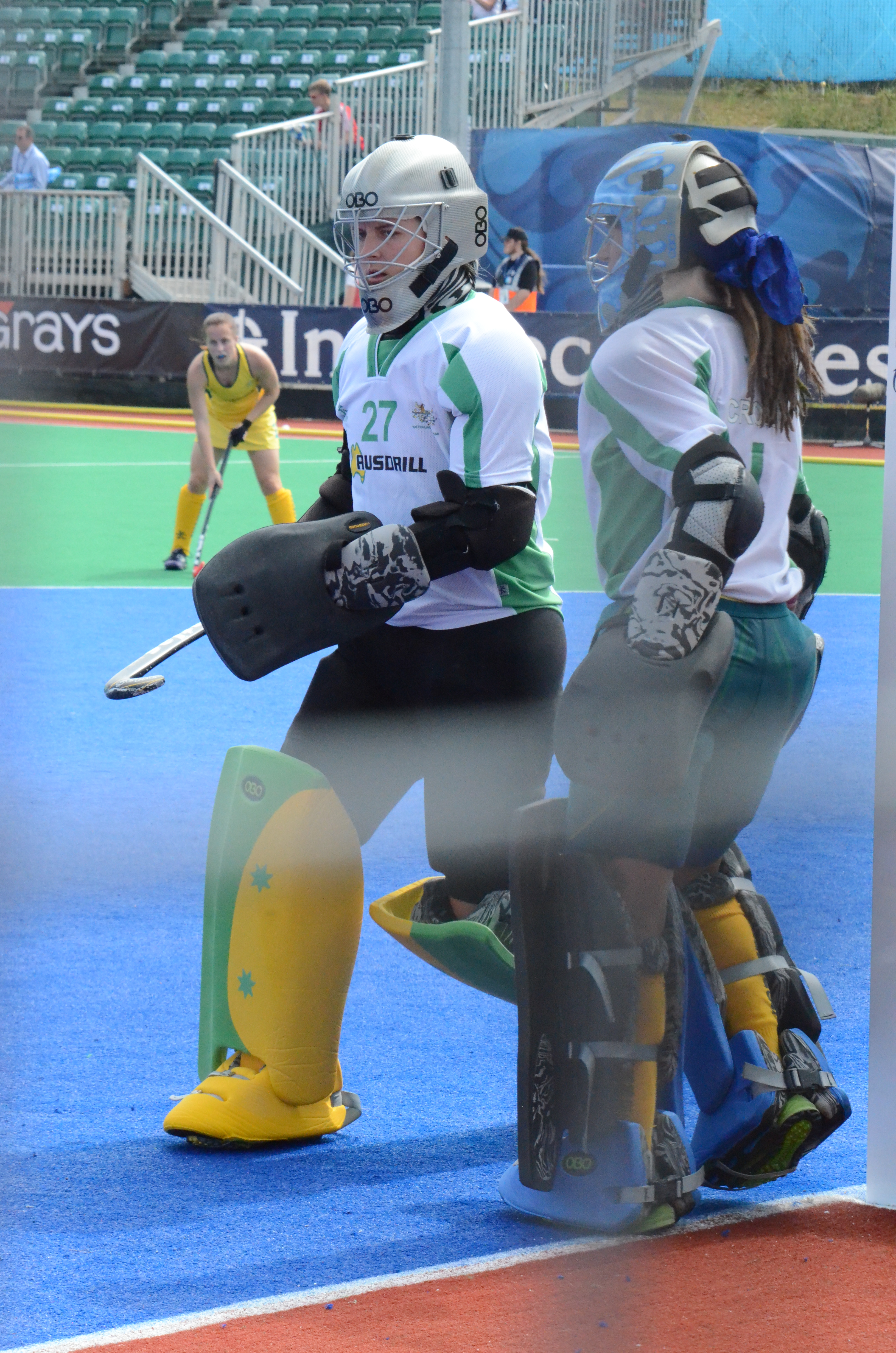 LYNCH Rachael (GK 27) and CRONK Toni (GK 1)